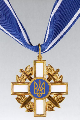 Ukrainian National Award - the order "For Bravery"